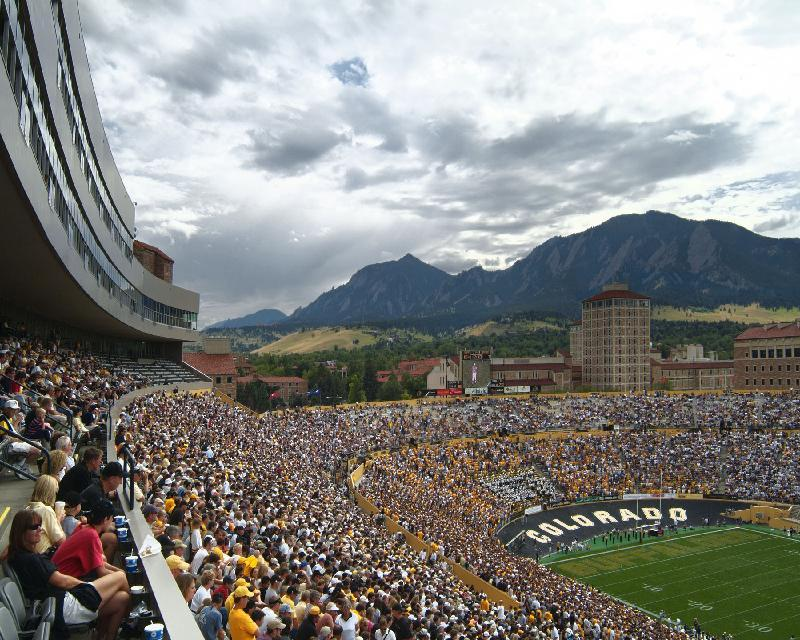 Club level picture looking towards south end of Folsom Field with Flatirons in the background